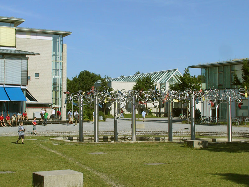 Campus and art